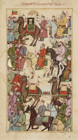 Abdi Pasha, the amir al-hajj (commander) of the Egyptian caravan, on his way from Mecca to Medina, from a copy of Safi ibn Vali's Anis al-Hujjaj (The Pilgrim's Companion). Original: From India, possibly Gujarat, circa 1677–80. Ink, watercolours and gold on paper; 33cm x 32.2cm (page).